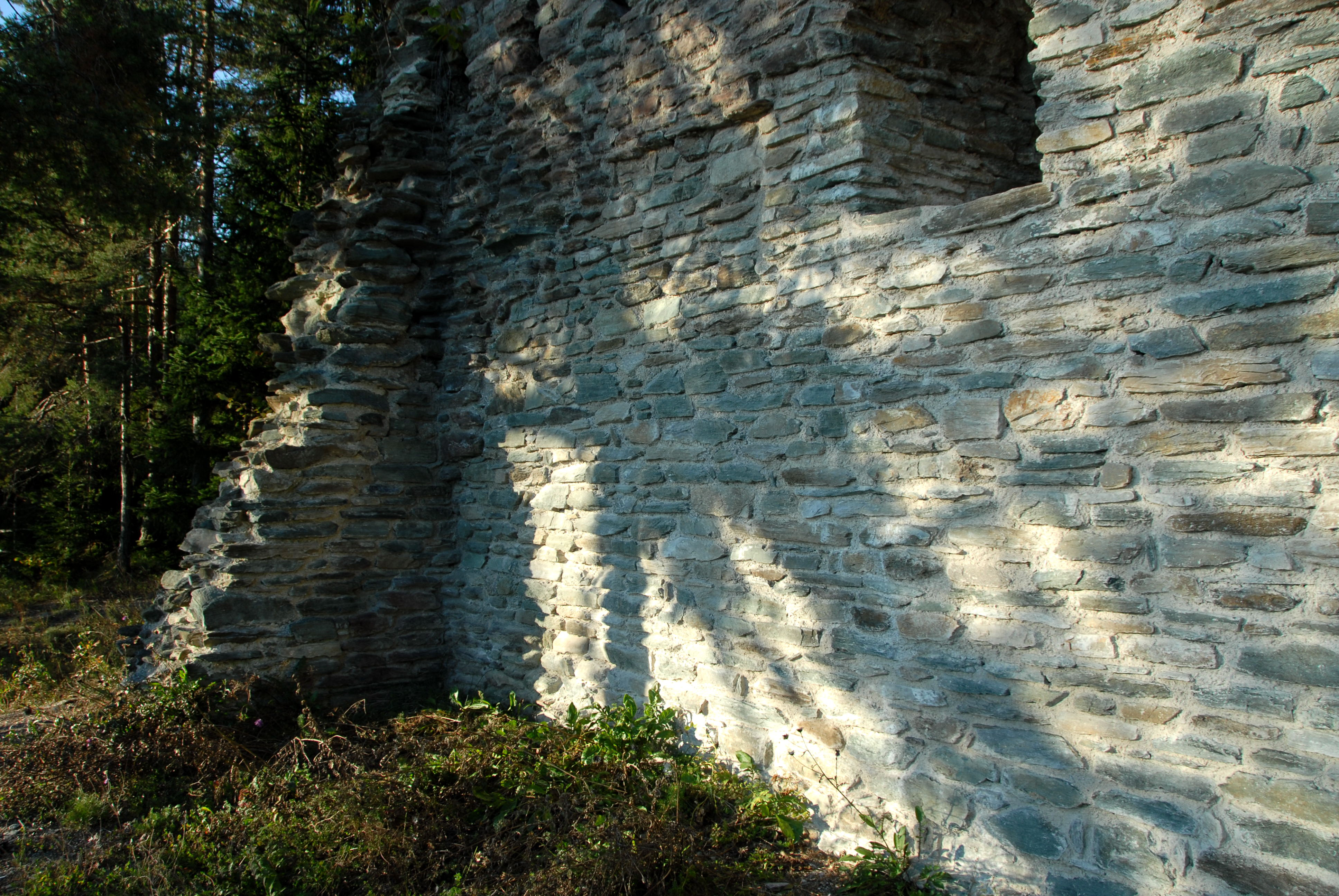 Ruin of castle Hohenburg in the community of Lurnfeld, Carinthia, Austria